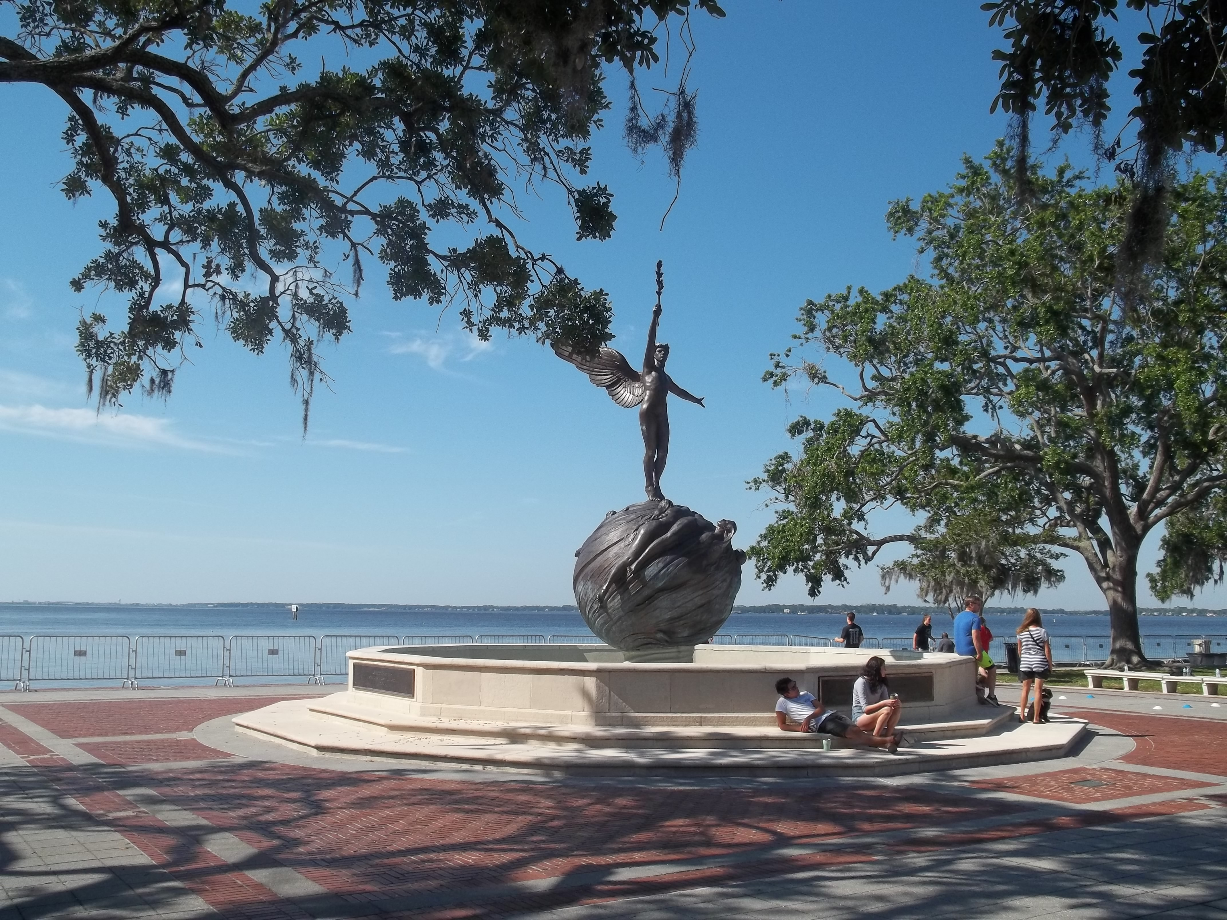 Memorial Park (Jacksonville)